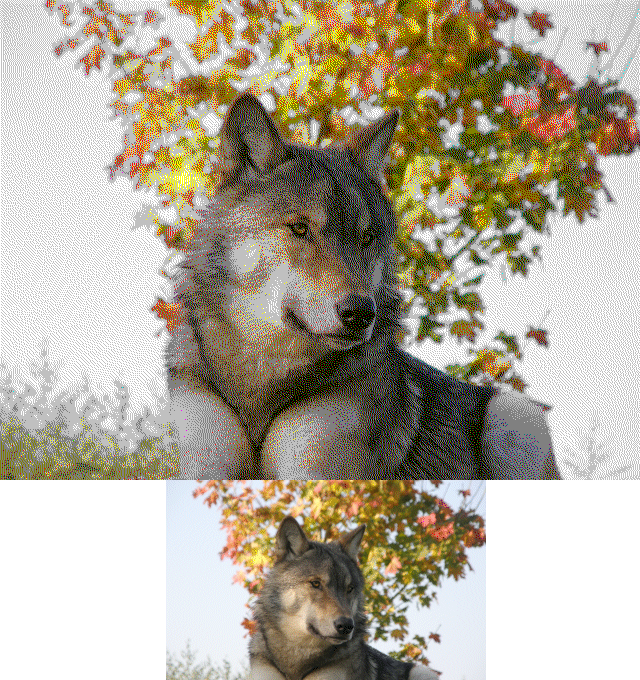 A comparison of VGA graphics modes, using a photo of Torak from the UK Wolf Conservation Trust. The largest portion is a 640x480x16 colour dithered image using the Windows VGA palette. The other portion is the same image using 320x200x256 colour mode.